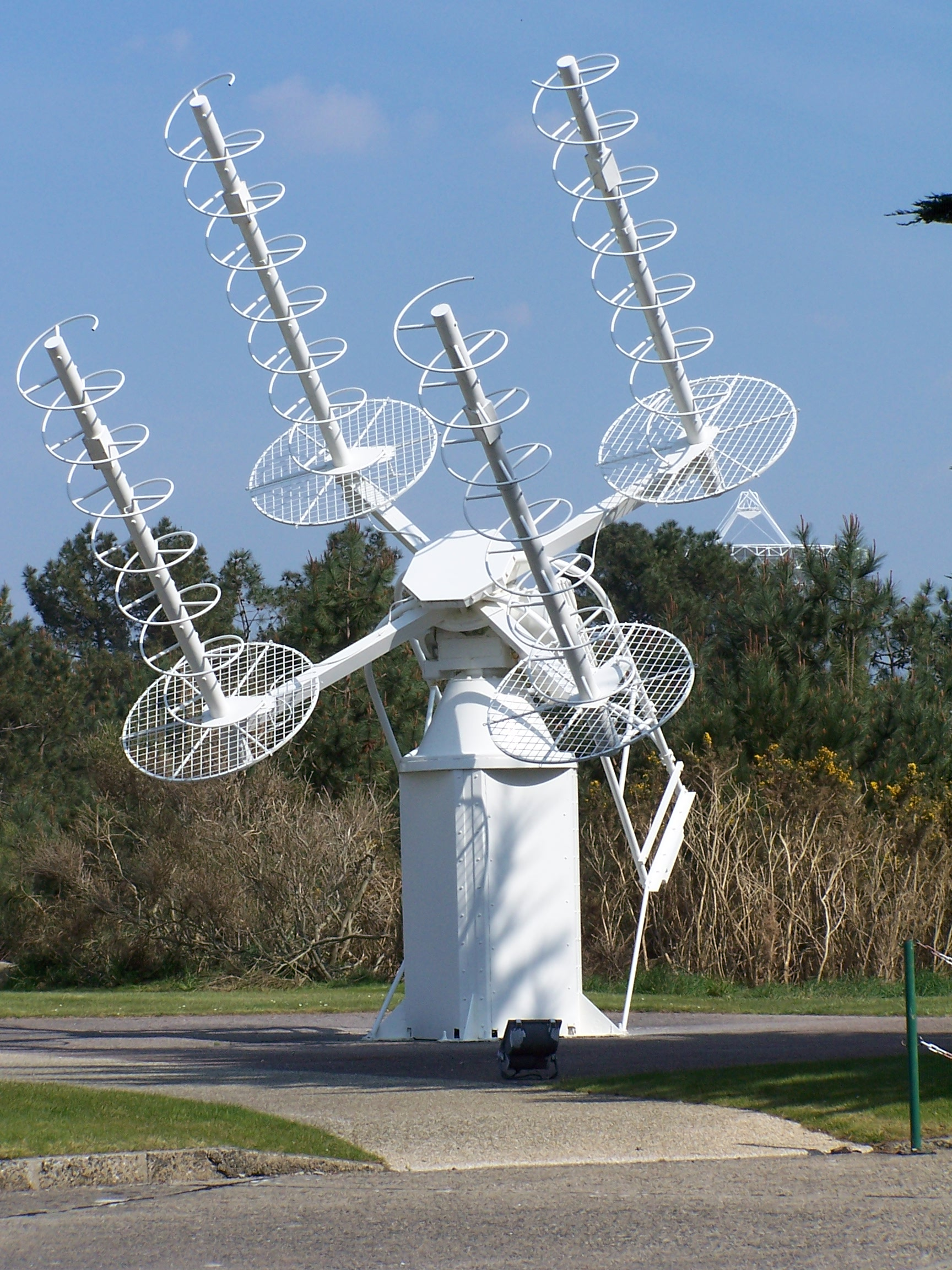 Satellite tracking-aquisition antenna, Pleumeur-Bodou, France. This type of antenna is called a Helical antenna. It transmits and receives circularly polarized radio waves, which are widely used for satellite communication.